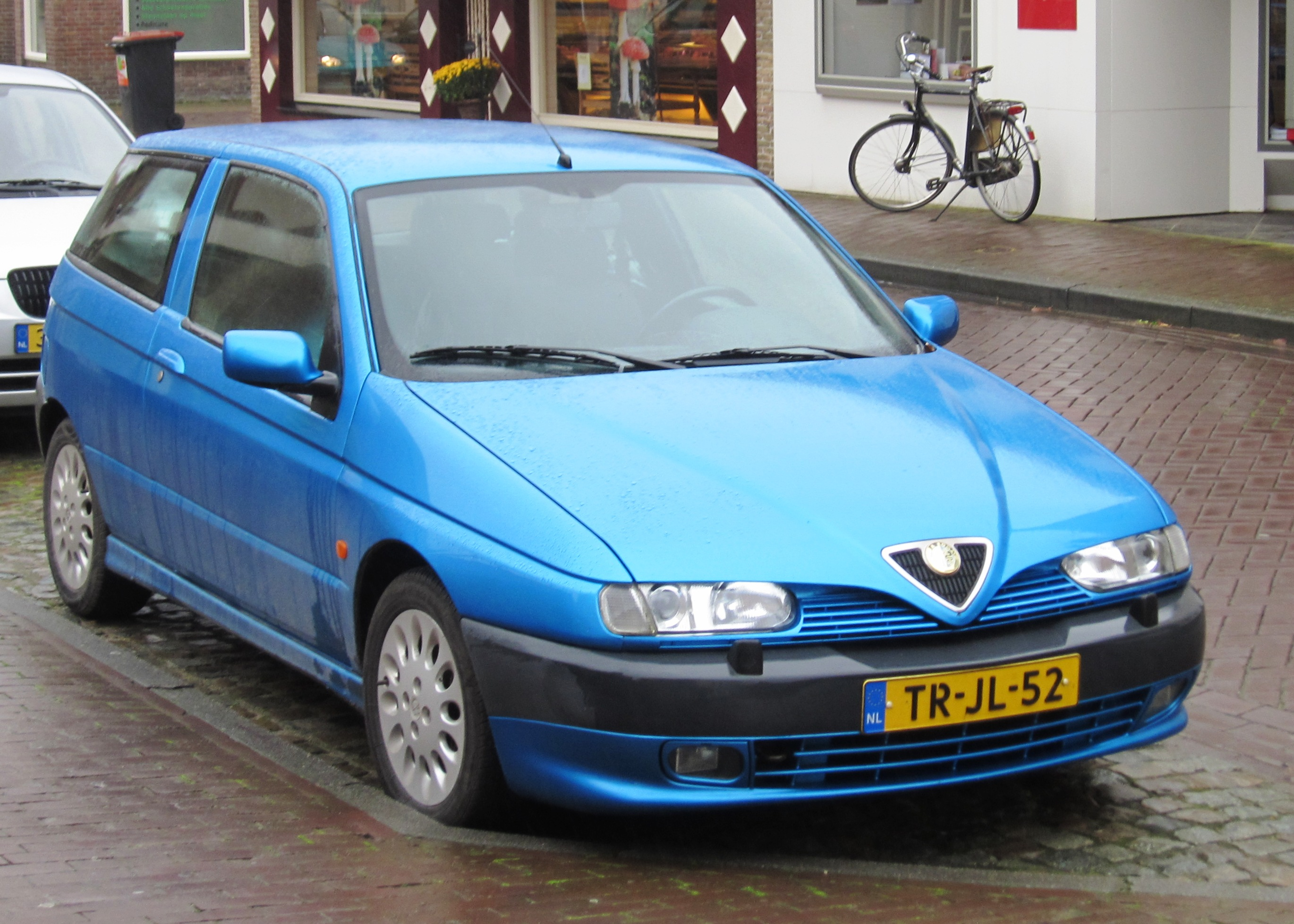 Alfa Romeo 145 Per Dutch tax office website: First registered June 1998 Engine 1747cc / 4 cylinders / 106 kW